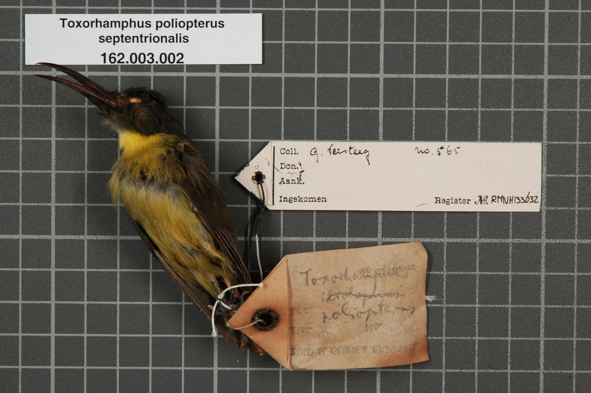 Toxorhamphus poliopterus septentrionalis Mayr & Rand, 1935